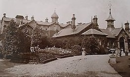 Postcard showing East Riding County Hospital